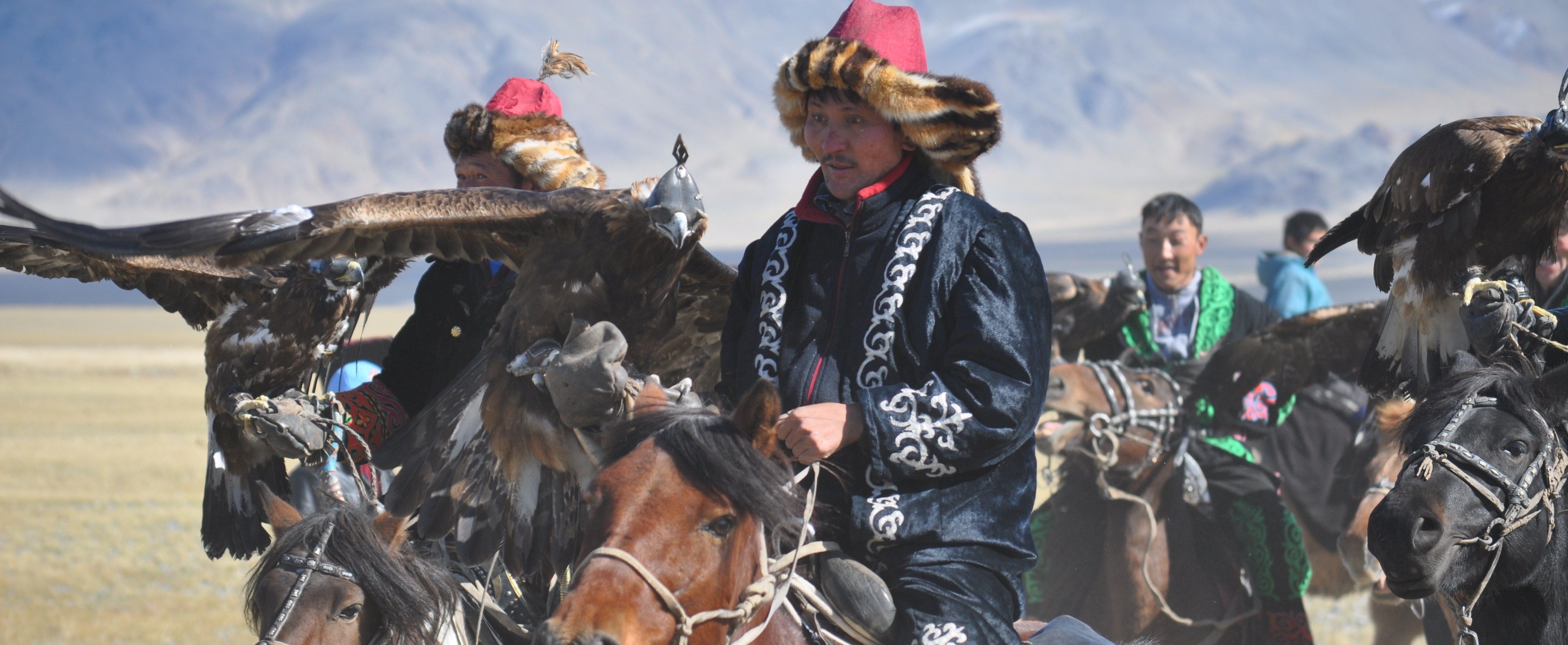 Kazakh eagle hunters in Olgii, Mongolia.